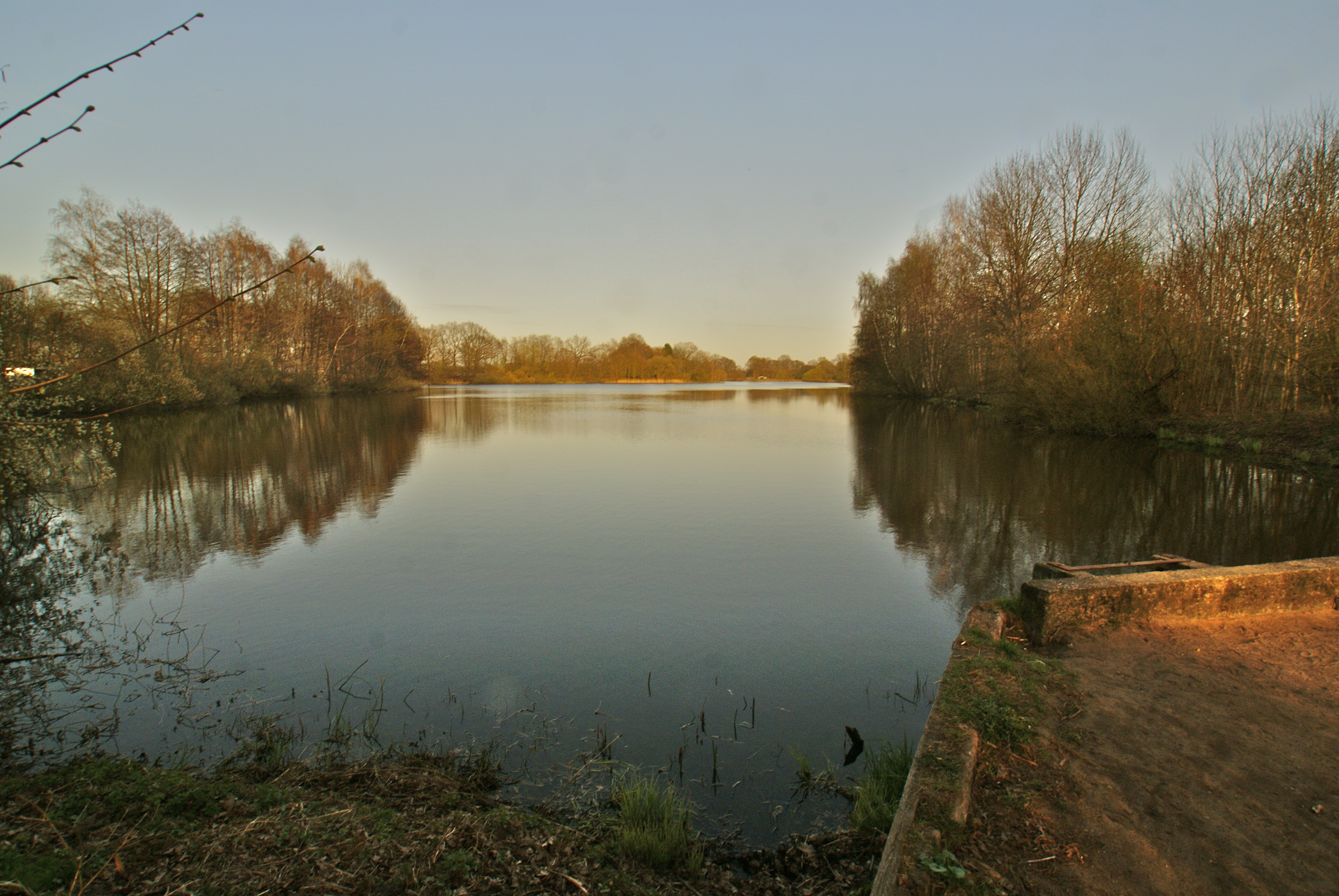 Ammersbek (Schäferdresch), Germany: Eastern pond of the three Timmerhorner Teiche on the river Strusbek